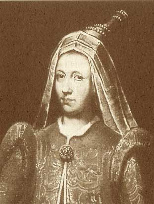 Judith van Twickelo